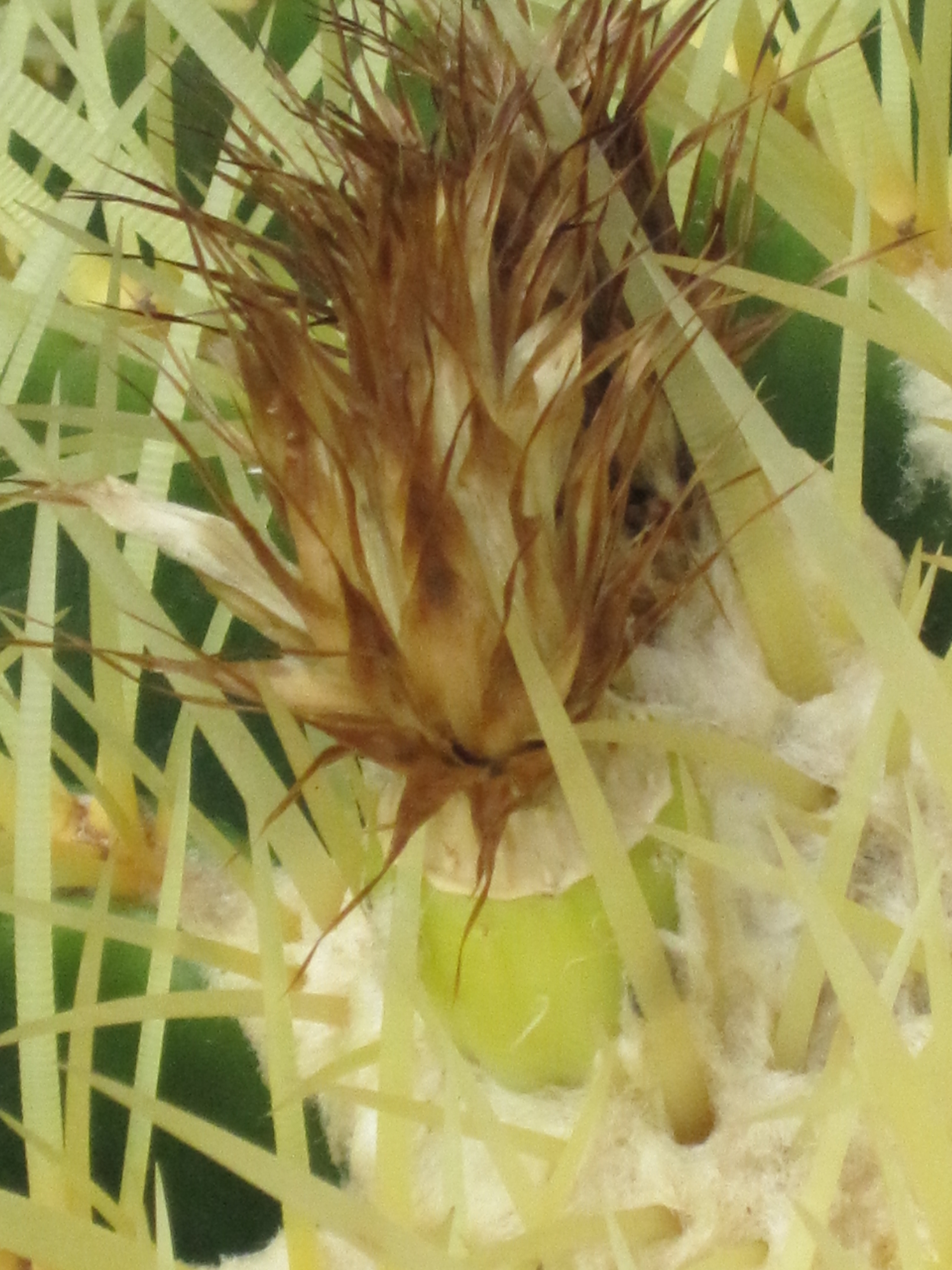 The fruit of echinocactus grusonii